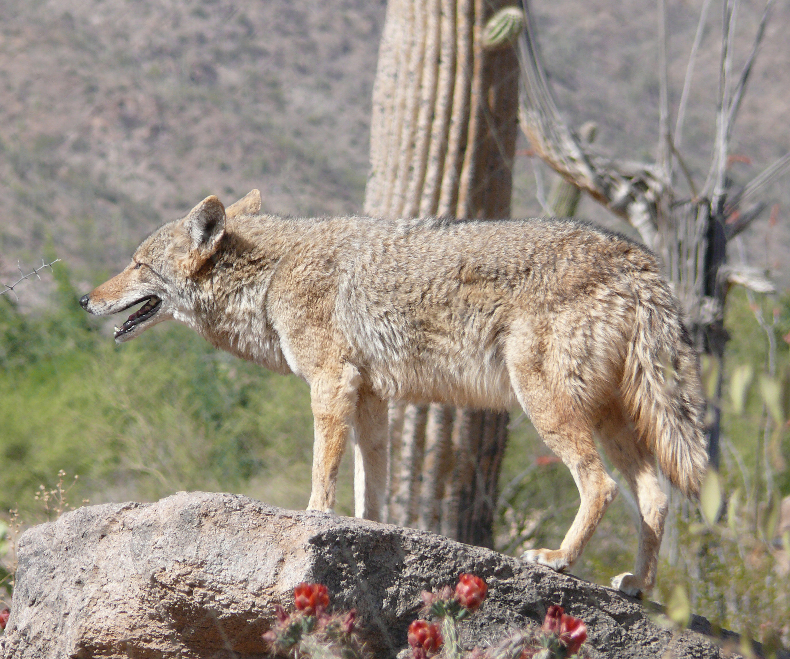 Mearns coyote - Canis latrans mearnsi at the Arizona-Sonora Desert Museum, Tucson, Arizona.